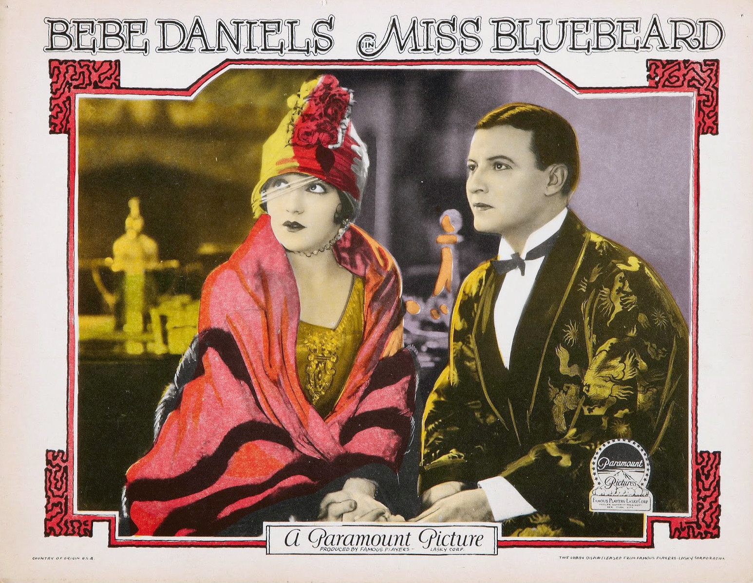 Lobby card for the American comedy film Miss Bluebeard (1925). There are no copyright marks on the item. At lower left is Country of origin USA. At lower right is This lobby display leased from Paramount Famous Players Lasky Corporation.